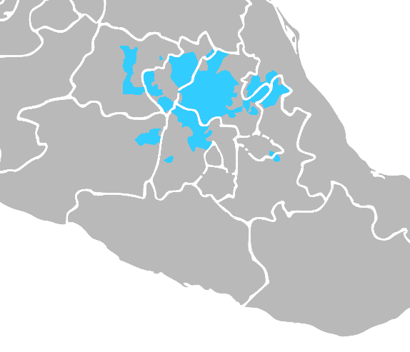 Otomi language: extension at the begining of 20th century and earlier extension in 16th century